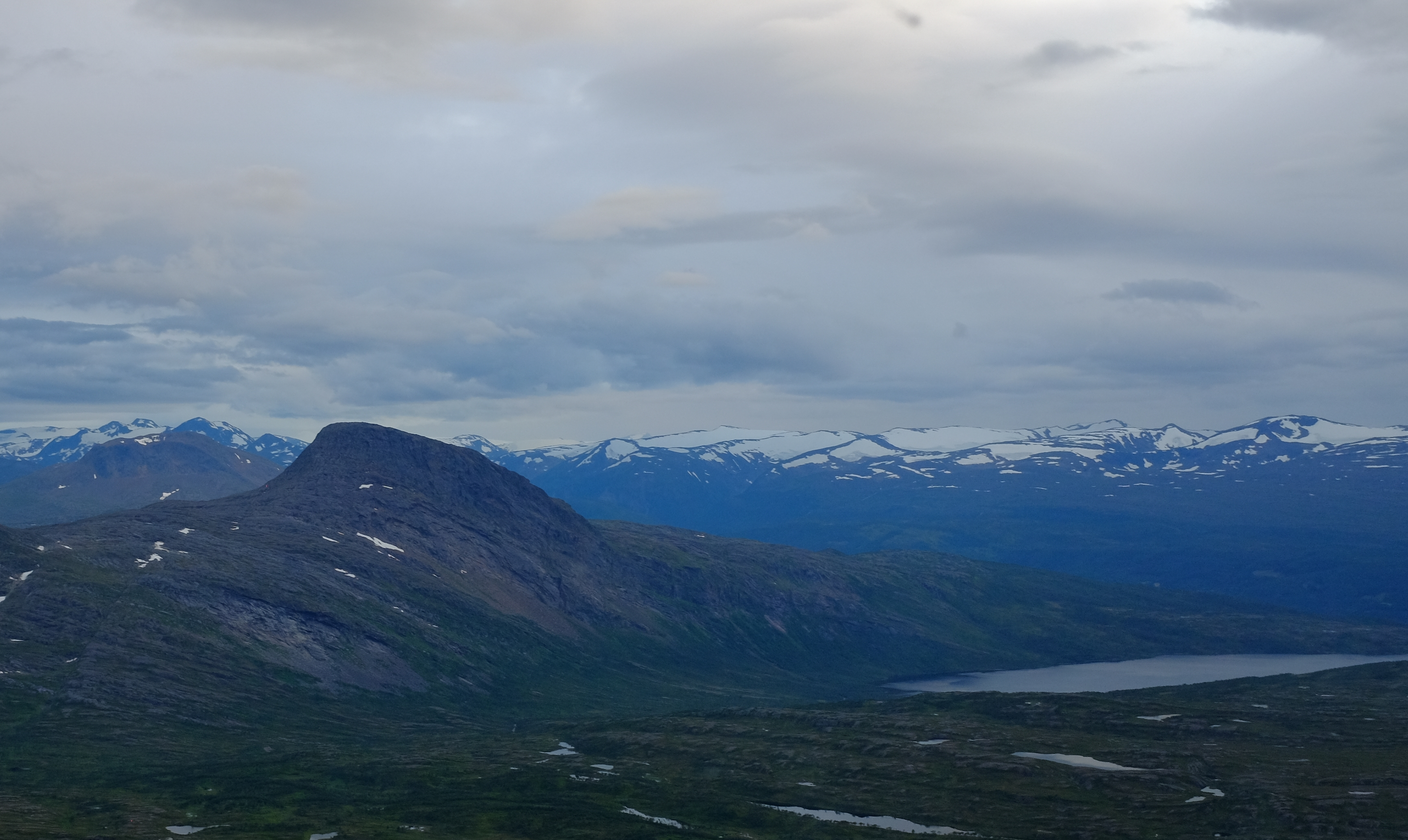 Ramsgjelvatnet is a lake in Beiarn municipality in Nordland, Norway.